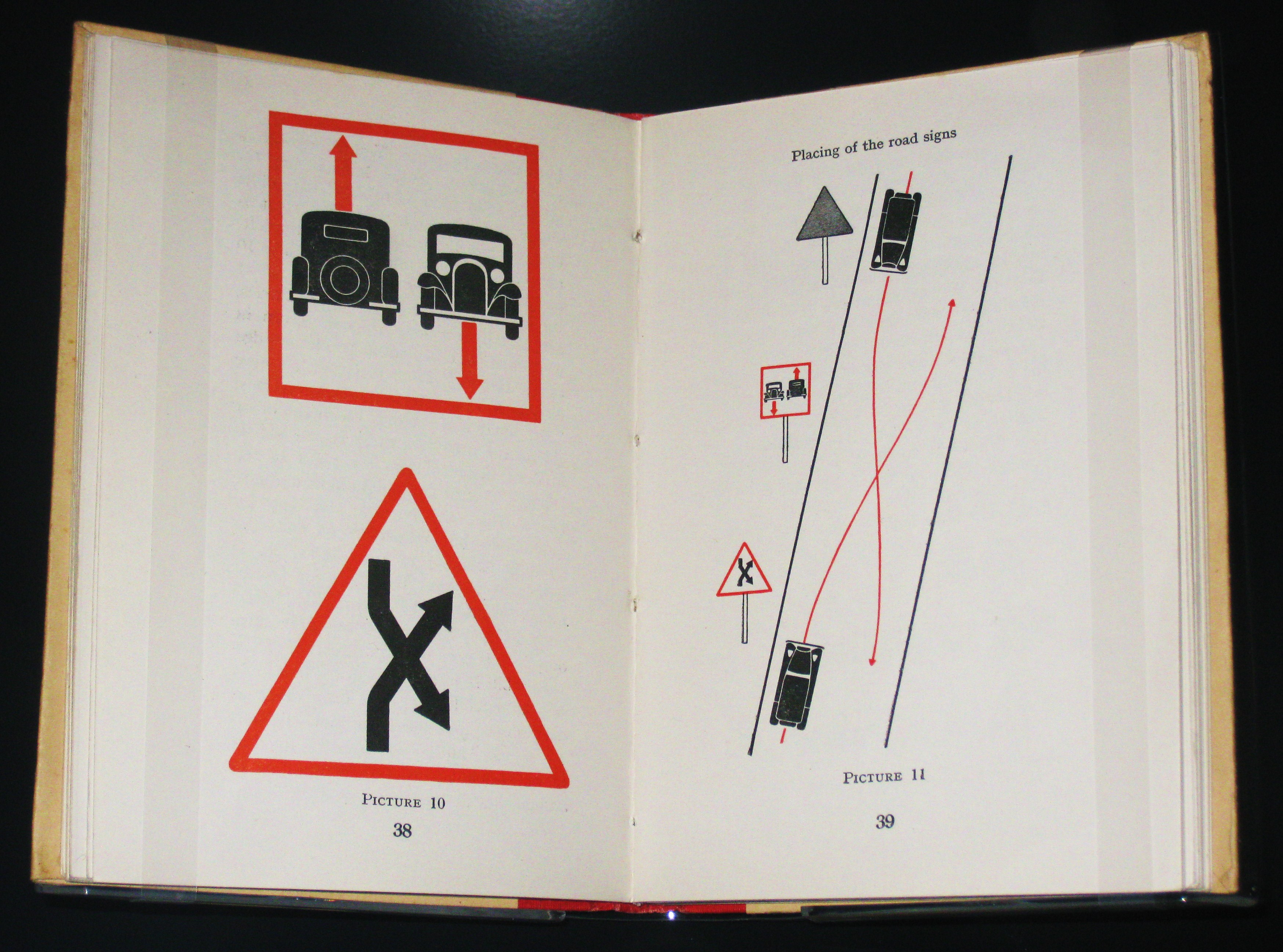 my own photo of the book on display at the Victoria and Albert Museium, taken 2011-03-10